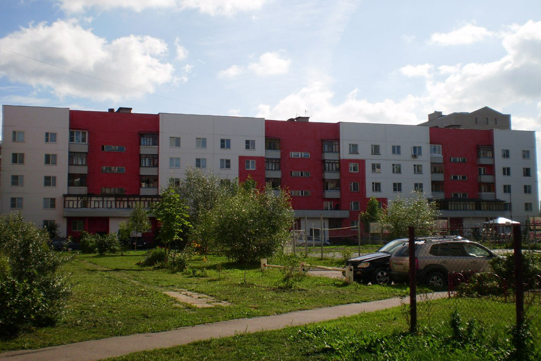 5-этажный дом в г.Великий Новгород